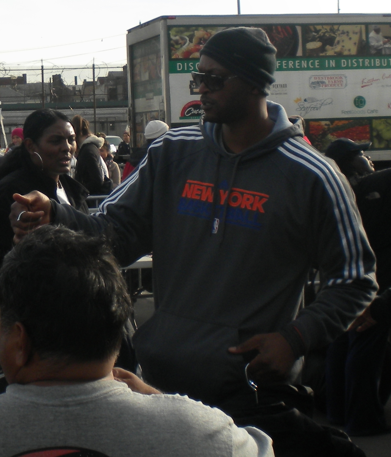 Rockaway, N.Y., Nov. 22, 2012 -- John Wallace of the New York Knicks basketball team, visited the Rockaway Disaster Recovery Center in Rockaway, New York. During his visit, he distributed coats, hats, diapers, cleaning supplies and comfort kits to Hurricane Sandy survivors. Photo By Geralda Calixte/FEMA